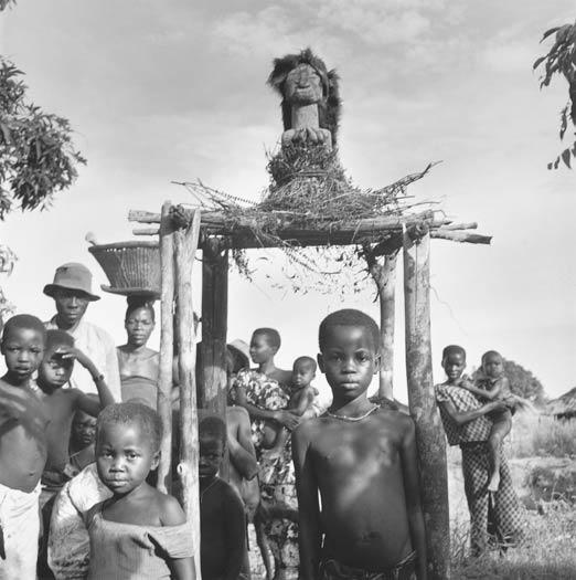 Physical description: photographic negative b&w; 2 1/4 x 2 1/4 inches Title source: Index card based on photographer's notes "The songye used to use a large number of fetishes and amulets to ensure success, fertility and wealth and ward off hostile forces, and divinition to point to the causes of misfortunes. The statues are made in a vigourous, powerful style; the usual pose is hieratic, upright, with the hands laid on a pointed belly, a long face, with a rounded forehead, flattened nose, jutting angular chin, ..., and large feet incorporated in the base. These statues, dressed in fabrics, feathers and skins, are charged with various substances inserted in the abdomen, sometimes in the mouth, or in the horns sprouting on its head. The power of these ingredients depended, on the one hand, on the incantations spoken by the nganga and, on the other hand, on the ritual acts that accompanied their insertion in the sculpture. The biggest sculptures, handed down from generation to generation, served the community, while the smaller ones were for private use." [Fearsome Statues from the songye in Central Africa: An interview with Father Francois Neyt. Art Tribal no. 5, Spring-Summer 2004, pp. 74-85]. During his trip to Belgian Congo (now Democratic Republic of Congo), Elisofon visited Nsapo villages in the Songye people region. The present day Songye people inhabit a vast area of the Congo concentrated in the province of Eastern and stretching into parts of Katanga and Kiori. The largest subgroups include the Kalebwe, Eastern Songe Songye, nde, Bala, Cibenji, Lembwe, Songa, Cofew and the Budia. This photograph was taken when Eliot Elisofon was on assignment for Life magazine and traveled to Africa from January 8, 1947 to end of June 1947."